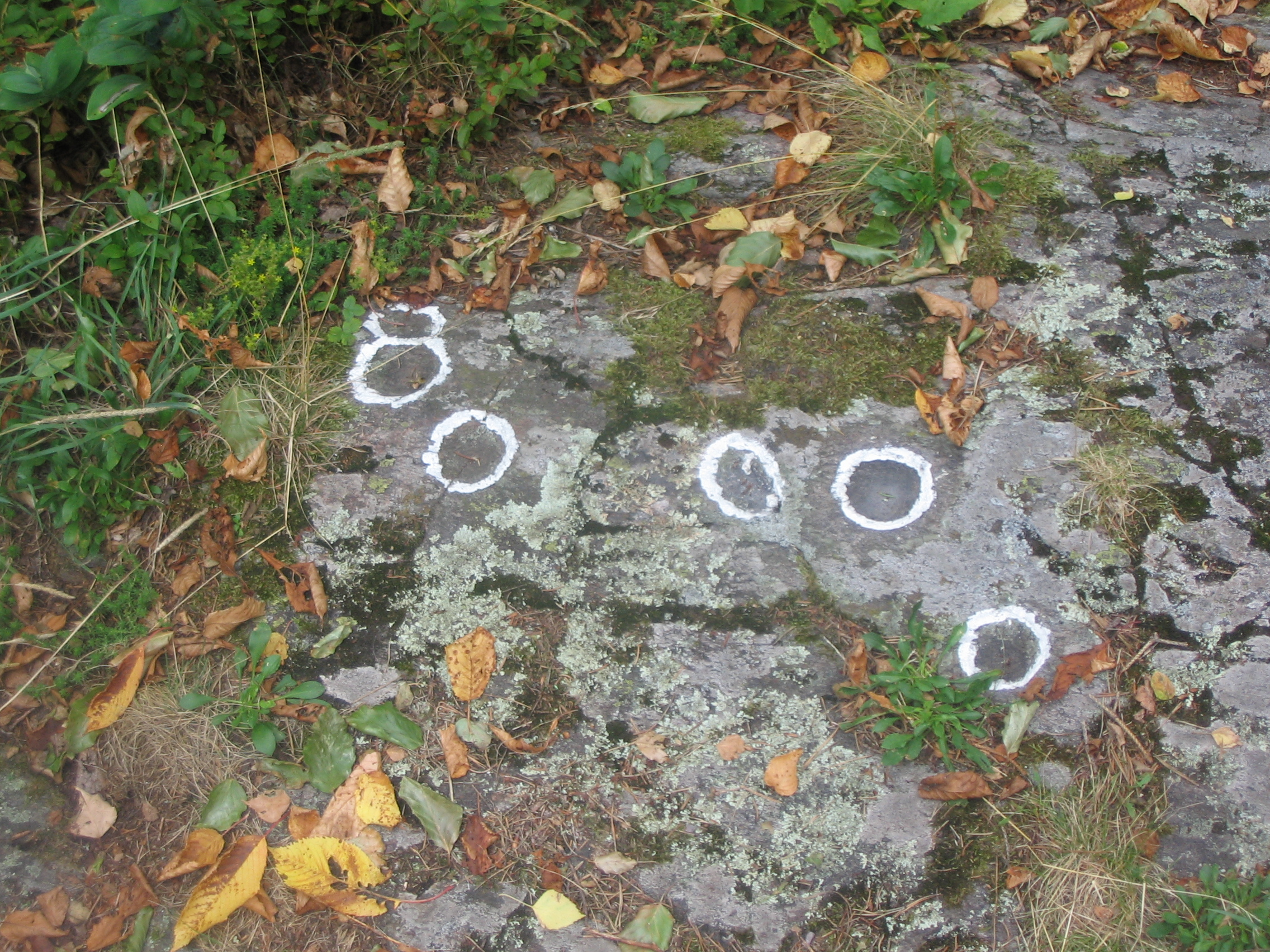 "Sacrifice stone" on Danielsberg, Austria. Photo taken on August 1, 2006. Photo by User:Jarlhelm